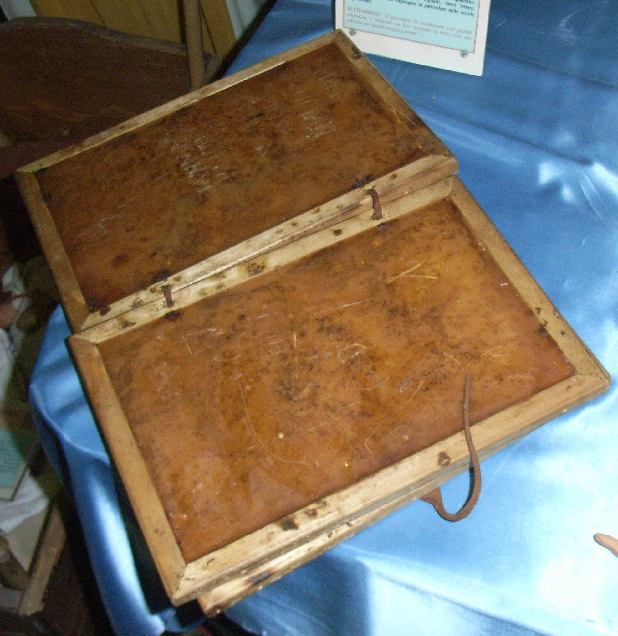 Museo Gruppo Storico Romano SEZIONE CIVILE Civil Life Wax tablet See [1] Photograph taken with permission at Museo Gruppo Storico Romano Museum in Rome